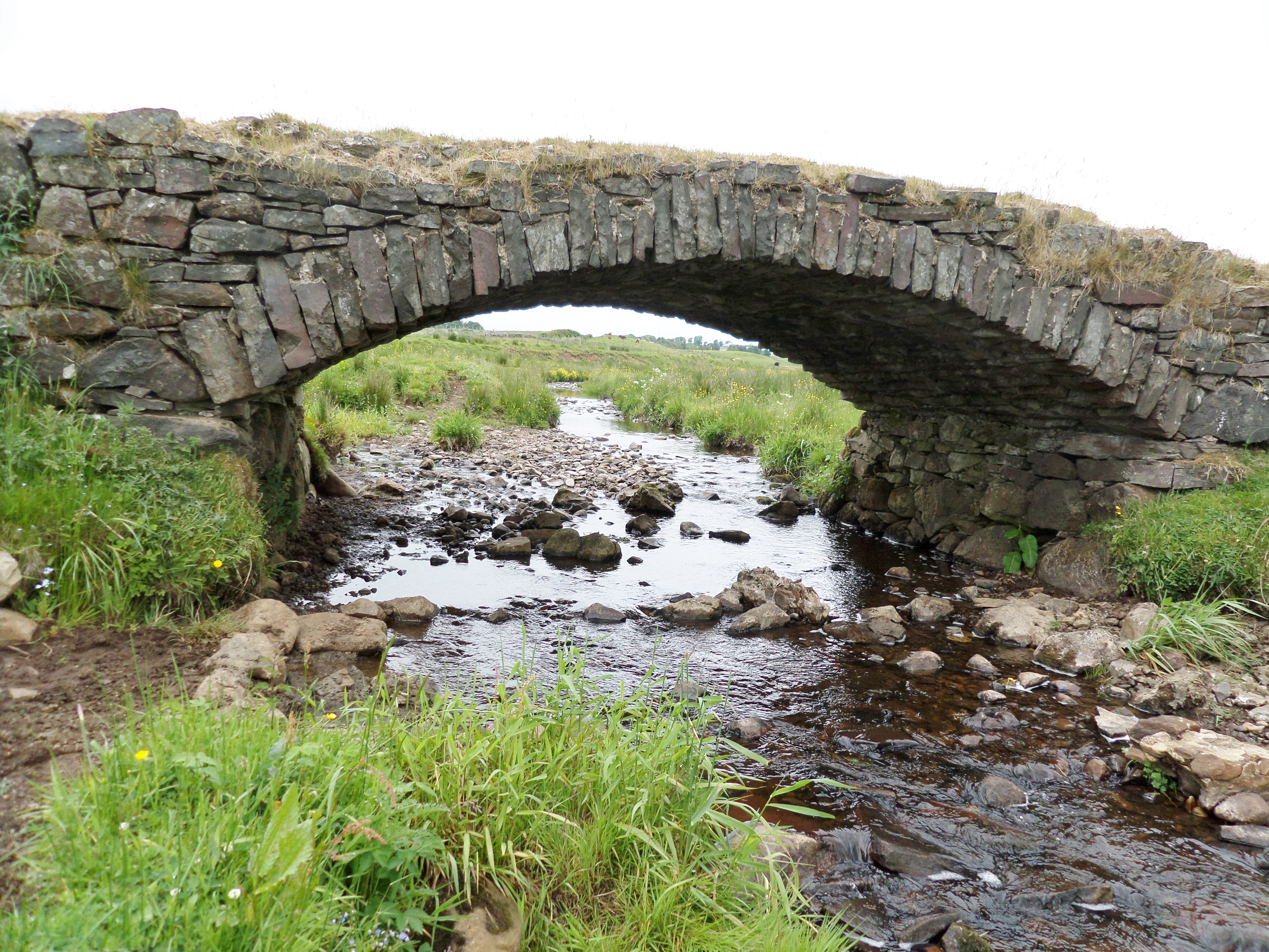 Old Blacklaw Bridge & the Annick Water - downstream side. Below Glenouther Moor, Strathannick, East Ayrshire